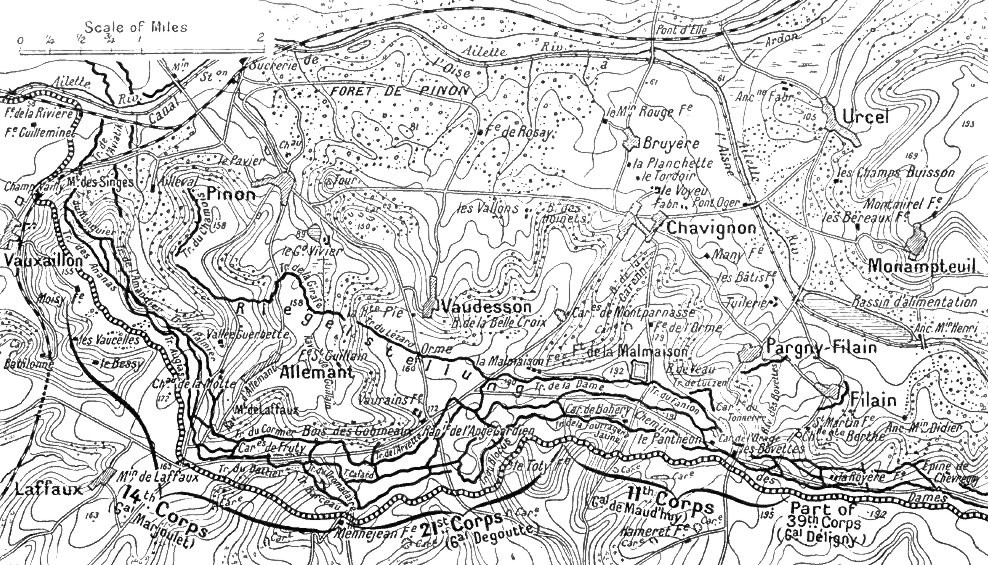 Map showing German fortifications in the Laffaux Salient and the Chemin-des-Dames in October 1917